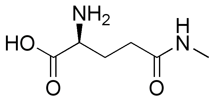 Chemical structure of N-methyl-L-glutamine, drawn in ChemDraw